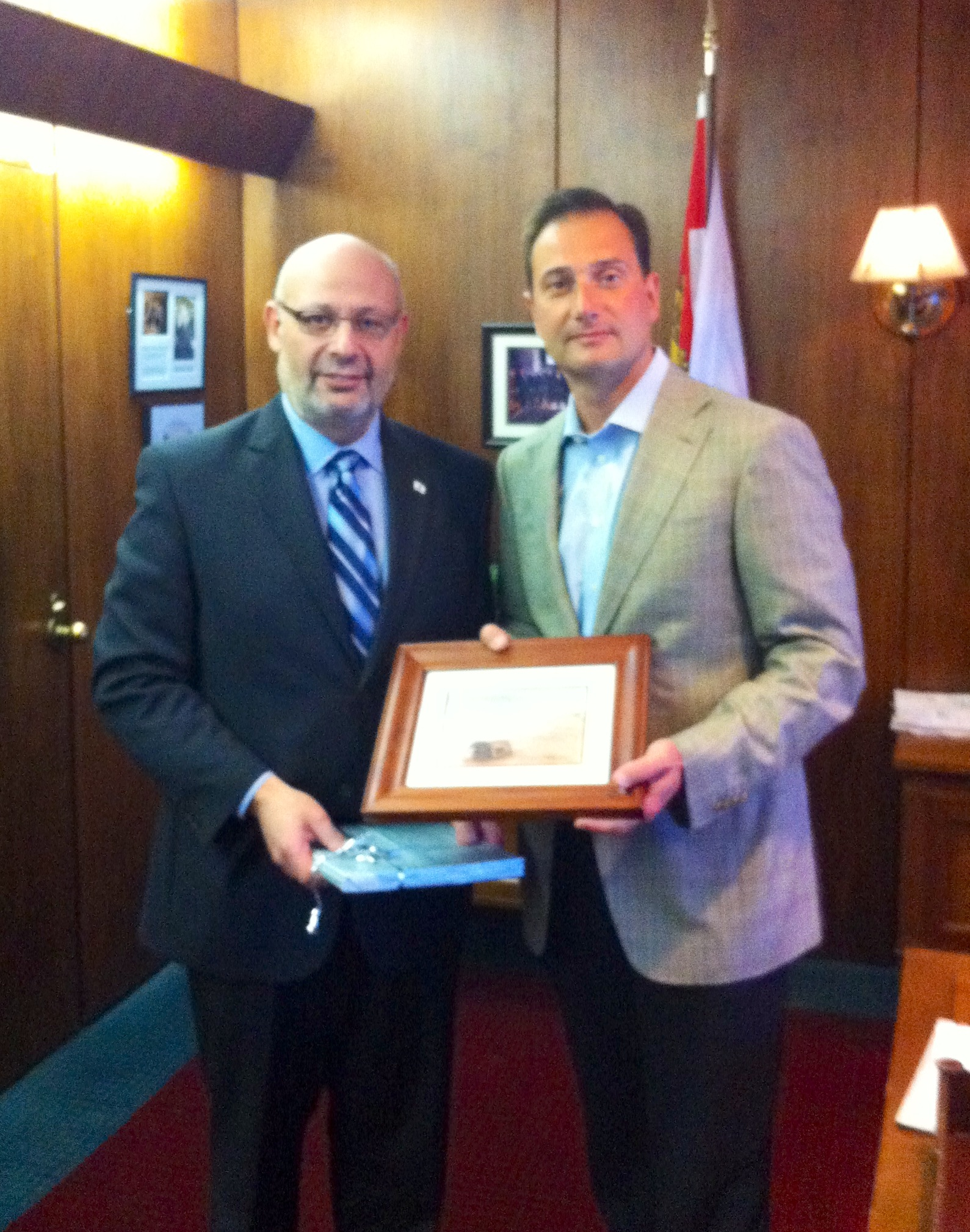 Consul General Lion with Prince Edward Island's Premier Robert Ghiz